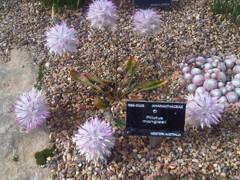 Ptilotus manglesii in Kew Gardens, England.